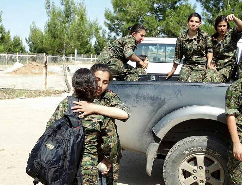 YPJ fighters embrace after battle.